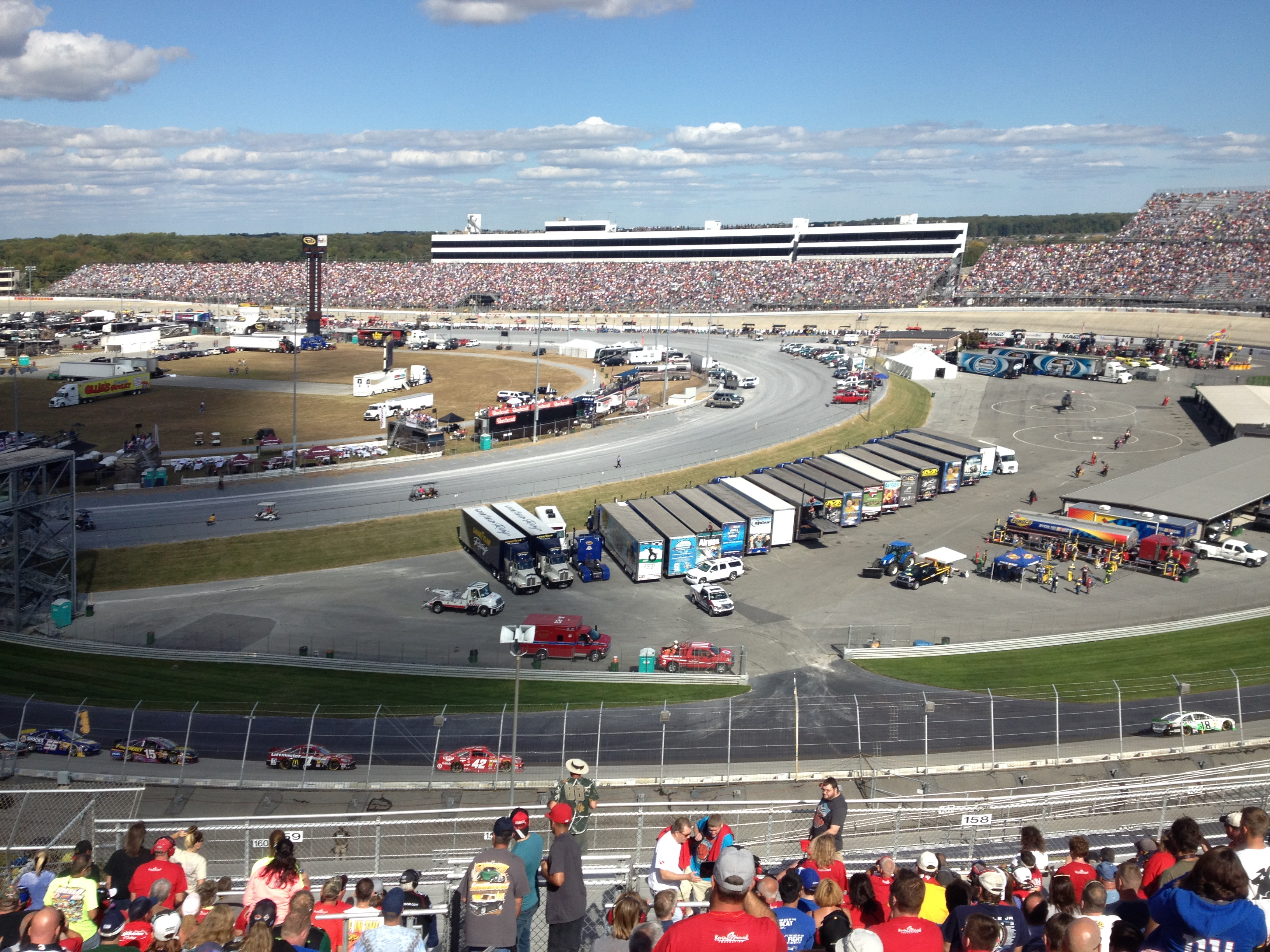 The 2013 AAA 400 at Dover International Speedway viewed from turn 3. Kyle Busch (#18) leads Juan Pablo Montoya (#42), Jamie McMurray (#1), Clint Bowyer (#15), and Martin Truex, Jr. (#56) following the first caution due to debris.